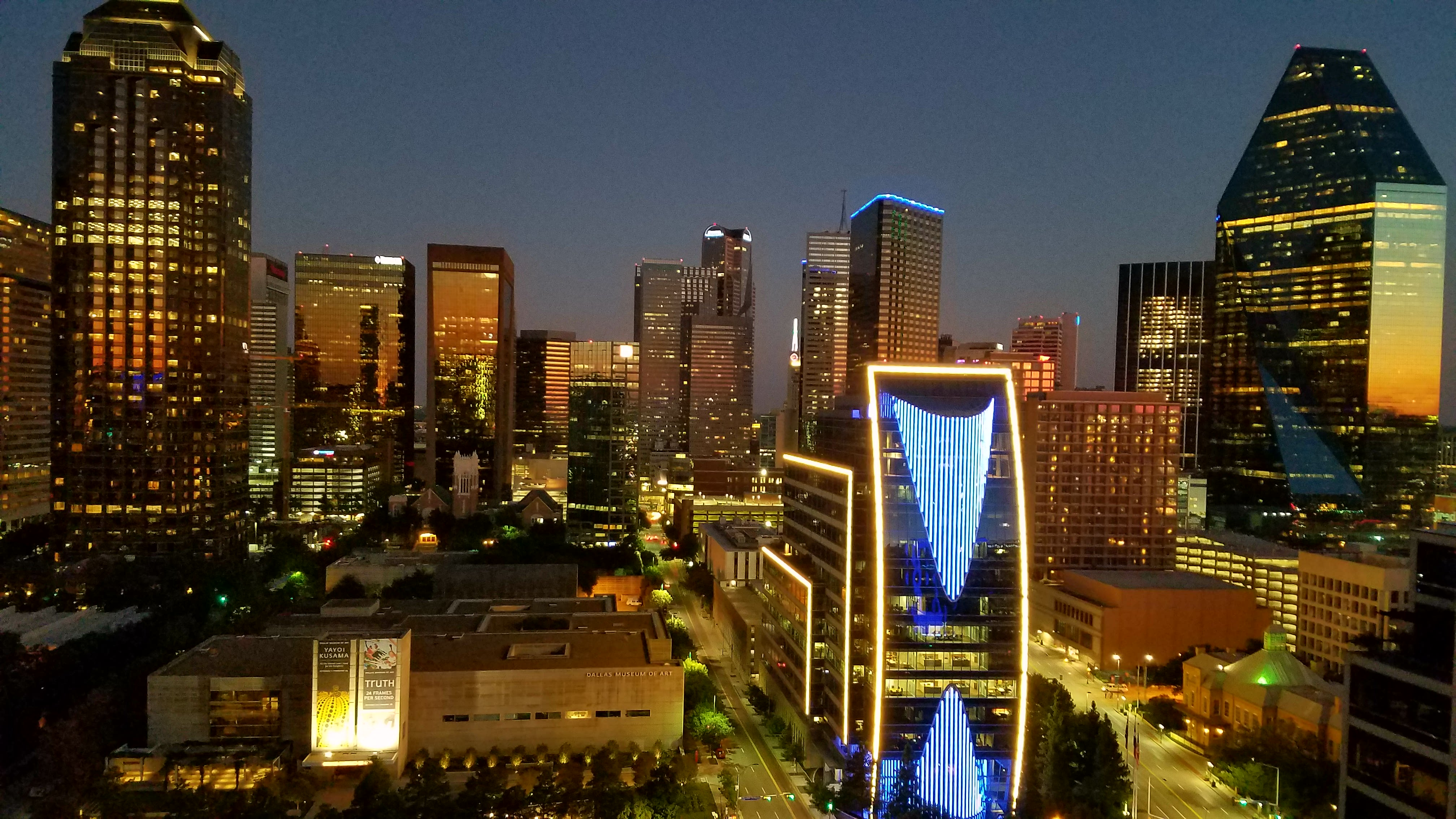 View of Dallas Arts District and the Downtown skyline in the evening.